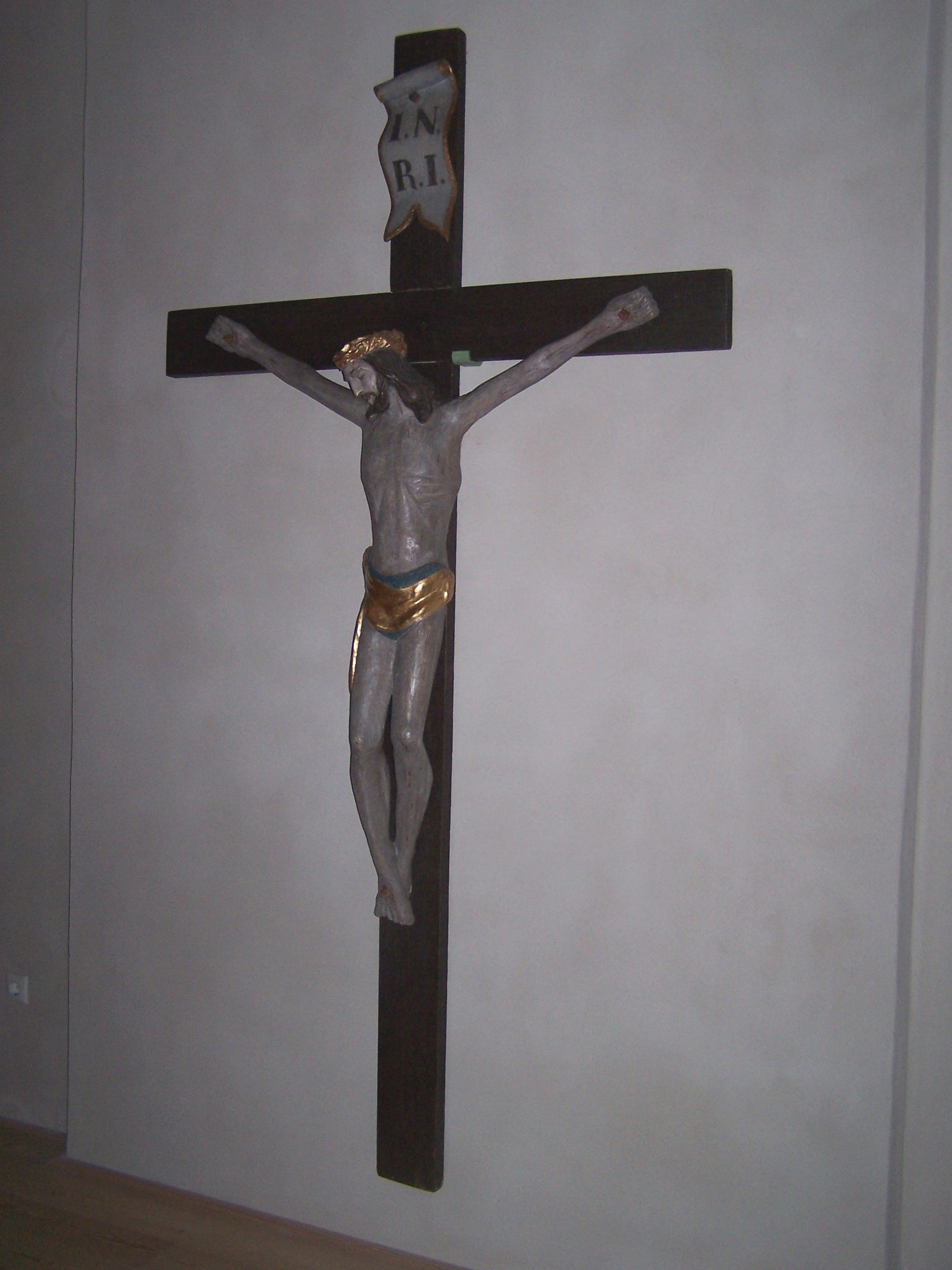 Wooden crucifix from the former property of the wife May of Carl von Weinberg in the crypt of the Holy Cross Church in Frankfurt am Main-Bornheim